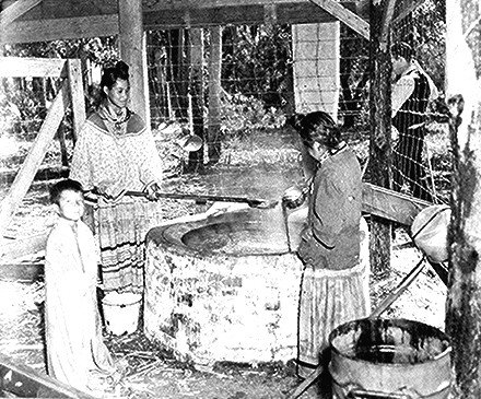 Two Seminole women cooking cane syrup, Seminole Indian Agency, Florida.